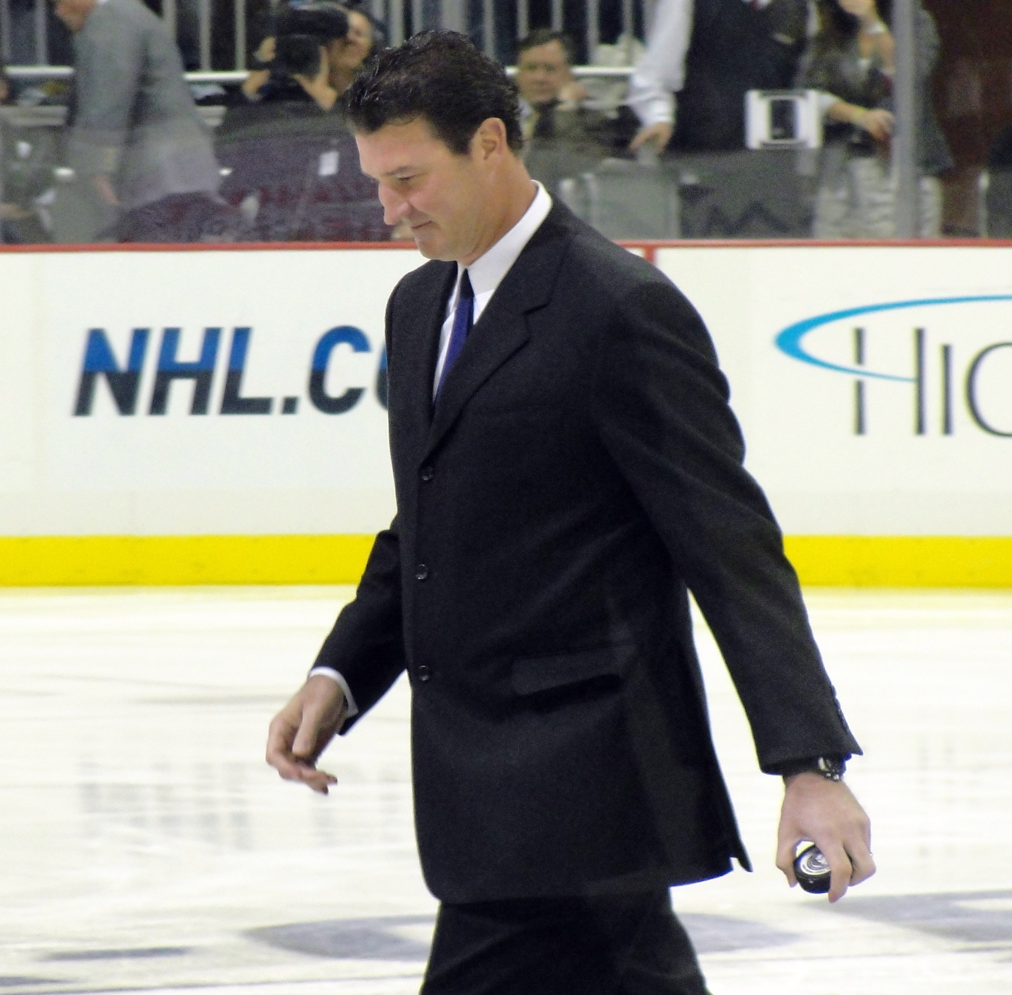 Pittsburgh Penguins owner Mario Lemieux walks off the ice carrying the ceremonial first puck before the inaugural regular season game at Consol Energy Center in Pittsburgh, PA, October 7, 2010.